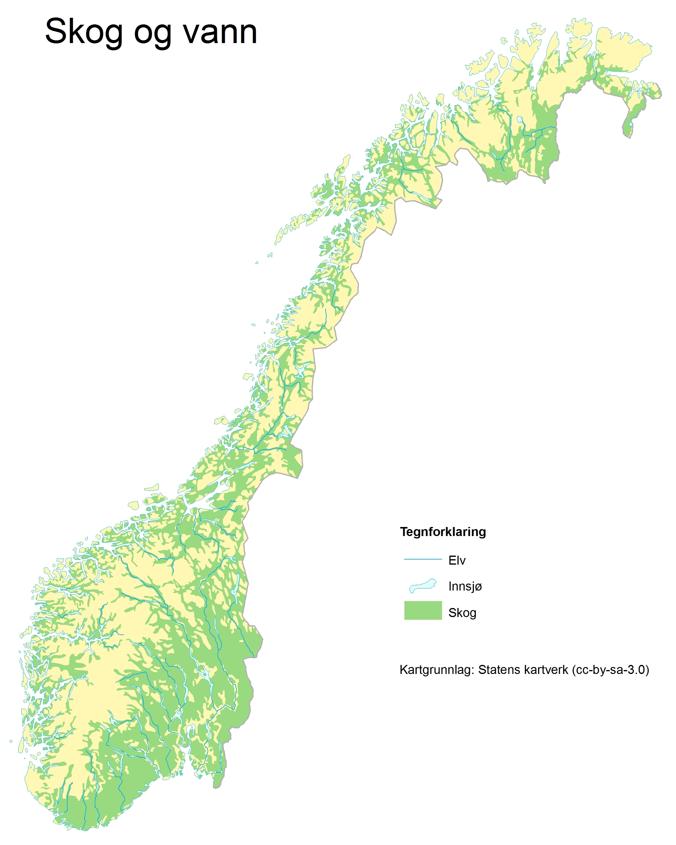 Distribution map of forest in Norway. Derivative from: of the Norwegian Map Authority (Statens Kartverk), issued explicitely under the lisence CC-BY-SA-3.0.